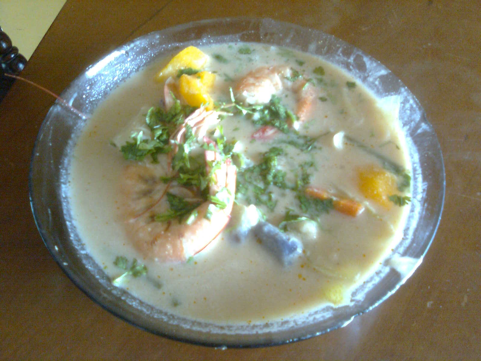 El Viche Chonero.